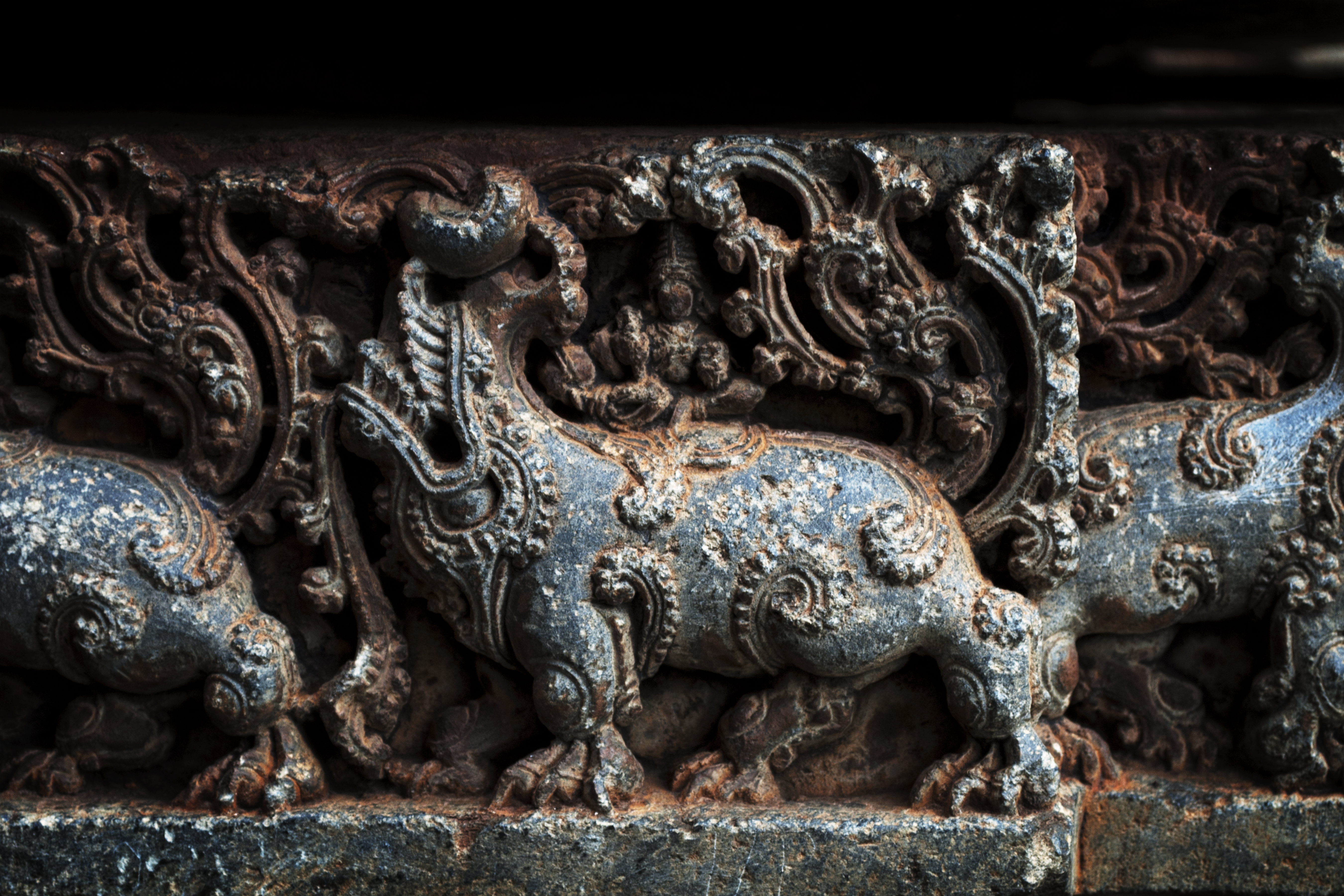 The Makara is an imaginary beast with the body of a wild hog, the legs of a lion, the tail of a peacock and the trunk of an elephant.